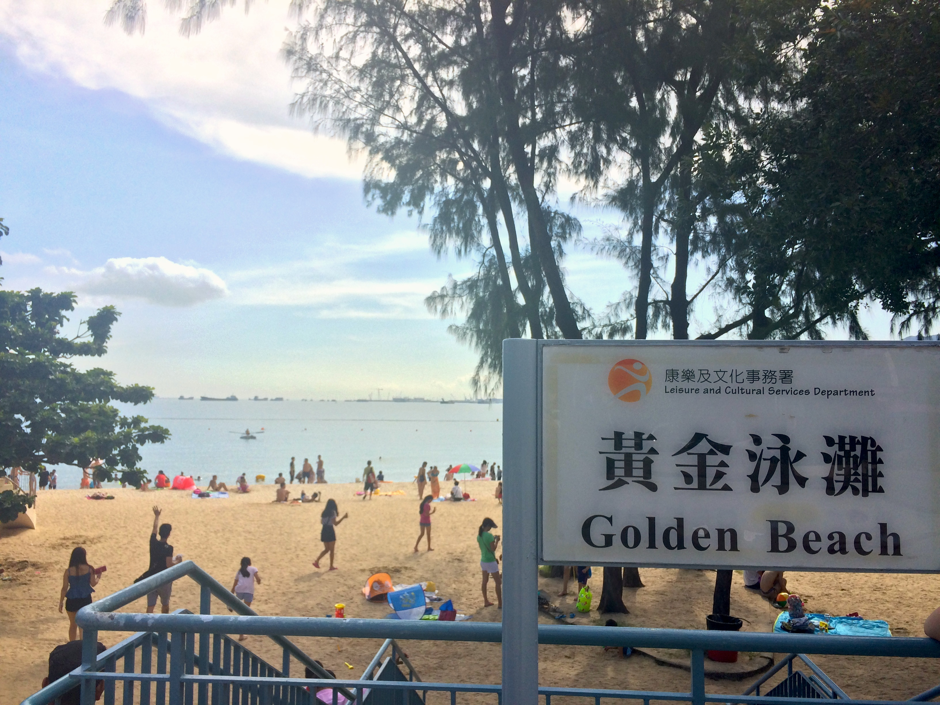 Golden Beach (黃金泳灘) is located at the 18.5 milestone of Castle Peak Road, Tuen Mun, Hong Kong. Thanks to Y's lens.